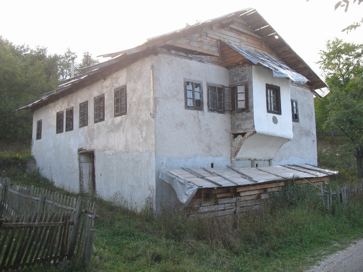 Han (motel from turkish times) in Kremna near Užice, Serbia.